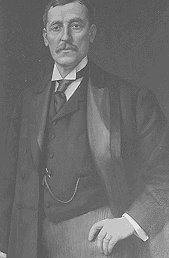 John McLane Born Scotland (Br. Isles); Milford manufacturer. In state politics from 1885.